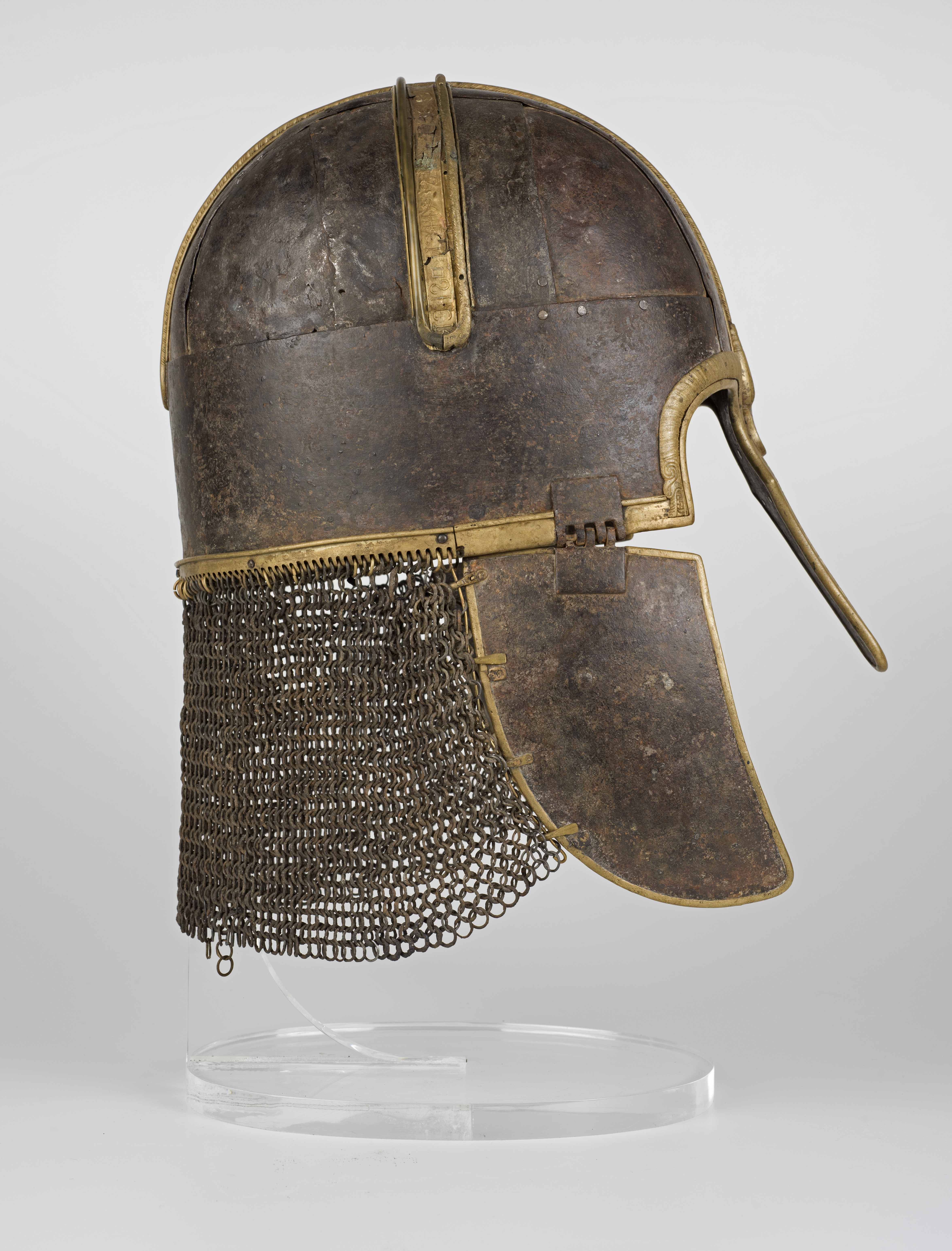 The 8th century Copperage (or York) helmet